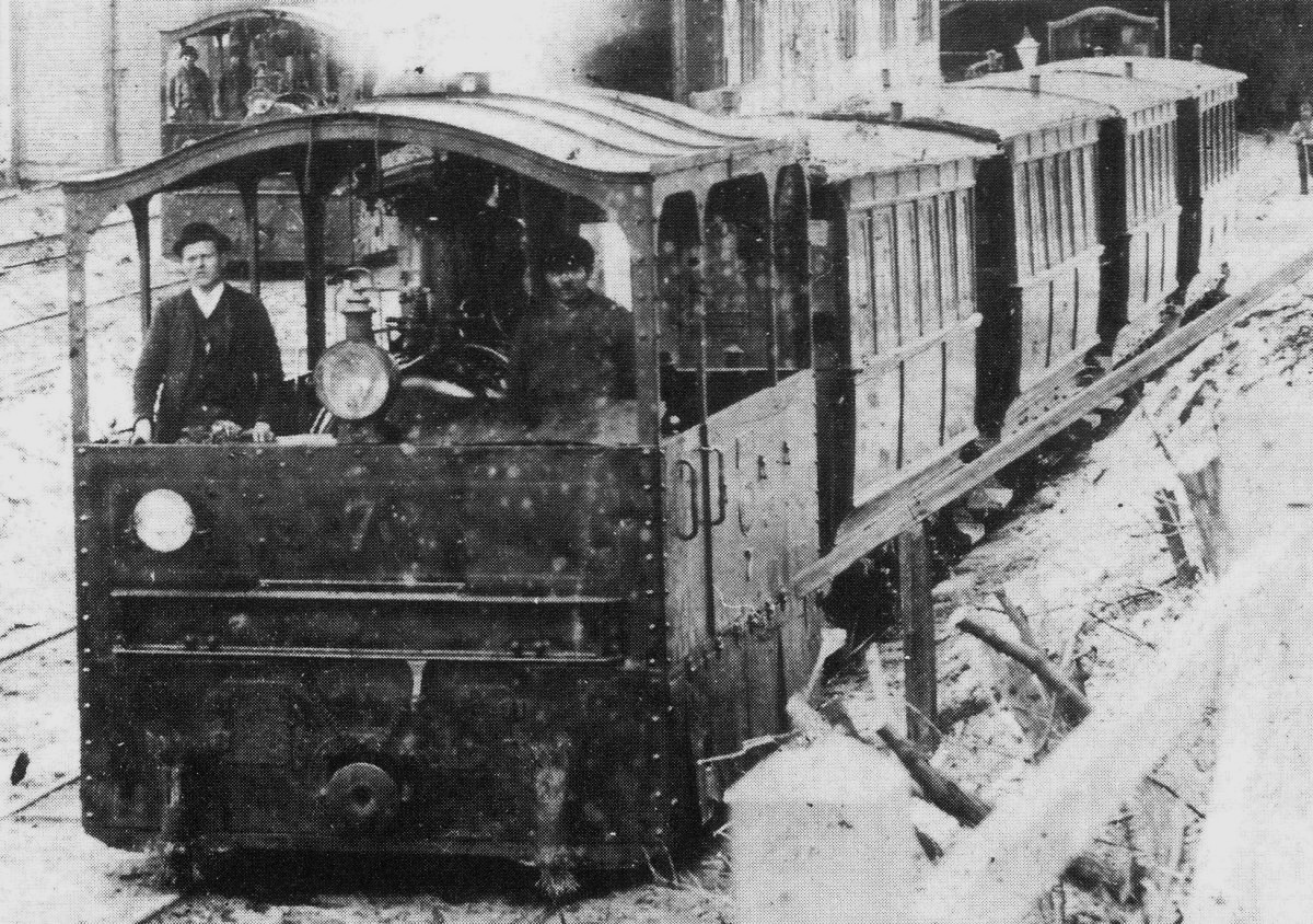 Steam tram with locomotive No. 7, Brno, Moravia (now Czech Republic)